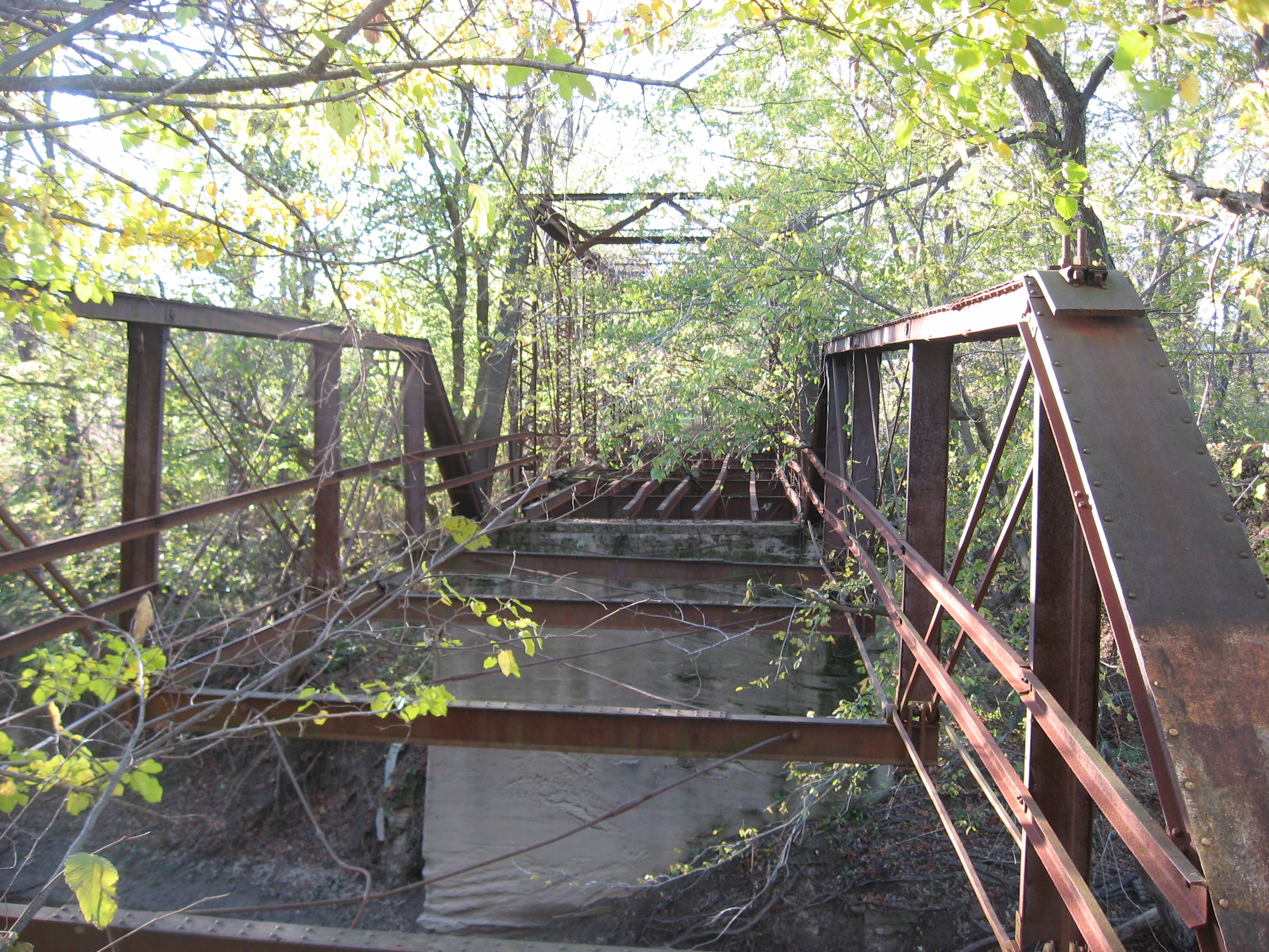 Eastern end of the Aqueduct Bridge, which formerly carried Towpath Road over Birch Creek southwest of Saline City in Clay County, Indiana, United States. Built in 1880, the Pratt through truss bridge is listed on the National Register of Historic Places.